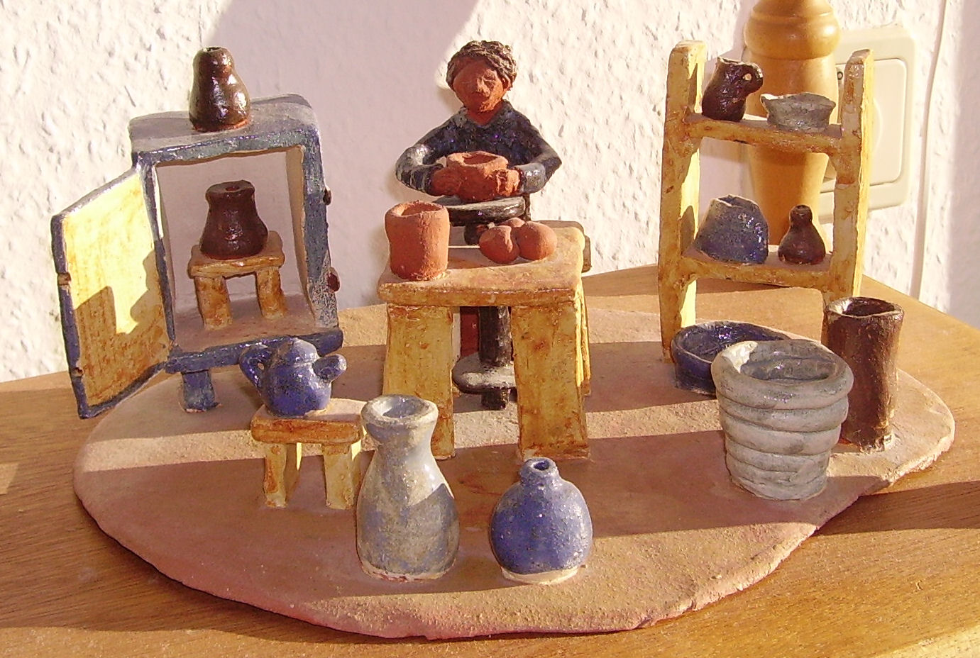 Potter